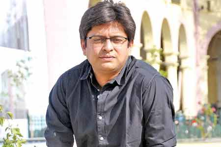 he is the writer of hit films like tanu weds manu and Raanjhanaa.